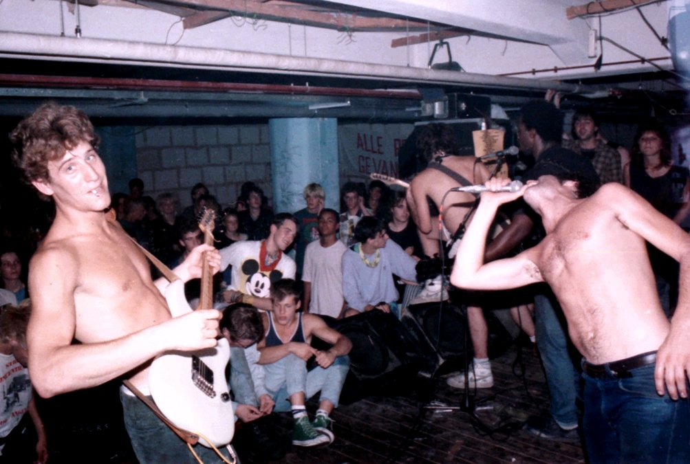 At the Emma (squat venue), Amsterdam, Summer 1986, Taken by Mark Davess